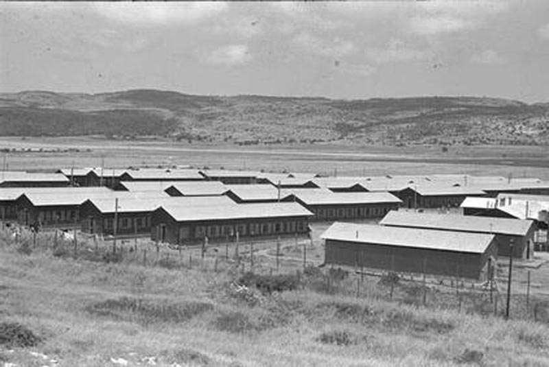 The Camp